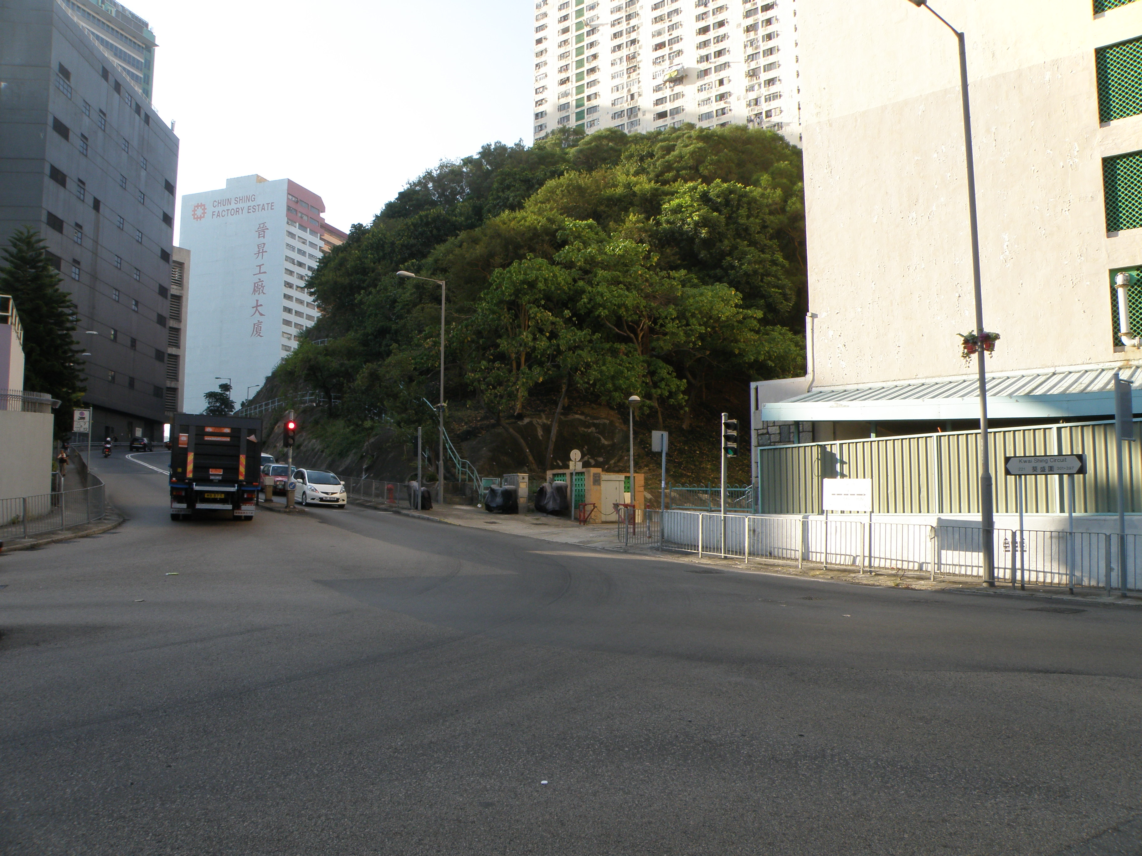 Kwai Shing Circuit in Kwai Chung, Hong Kong.